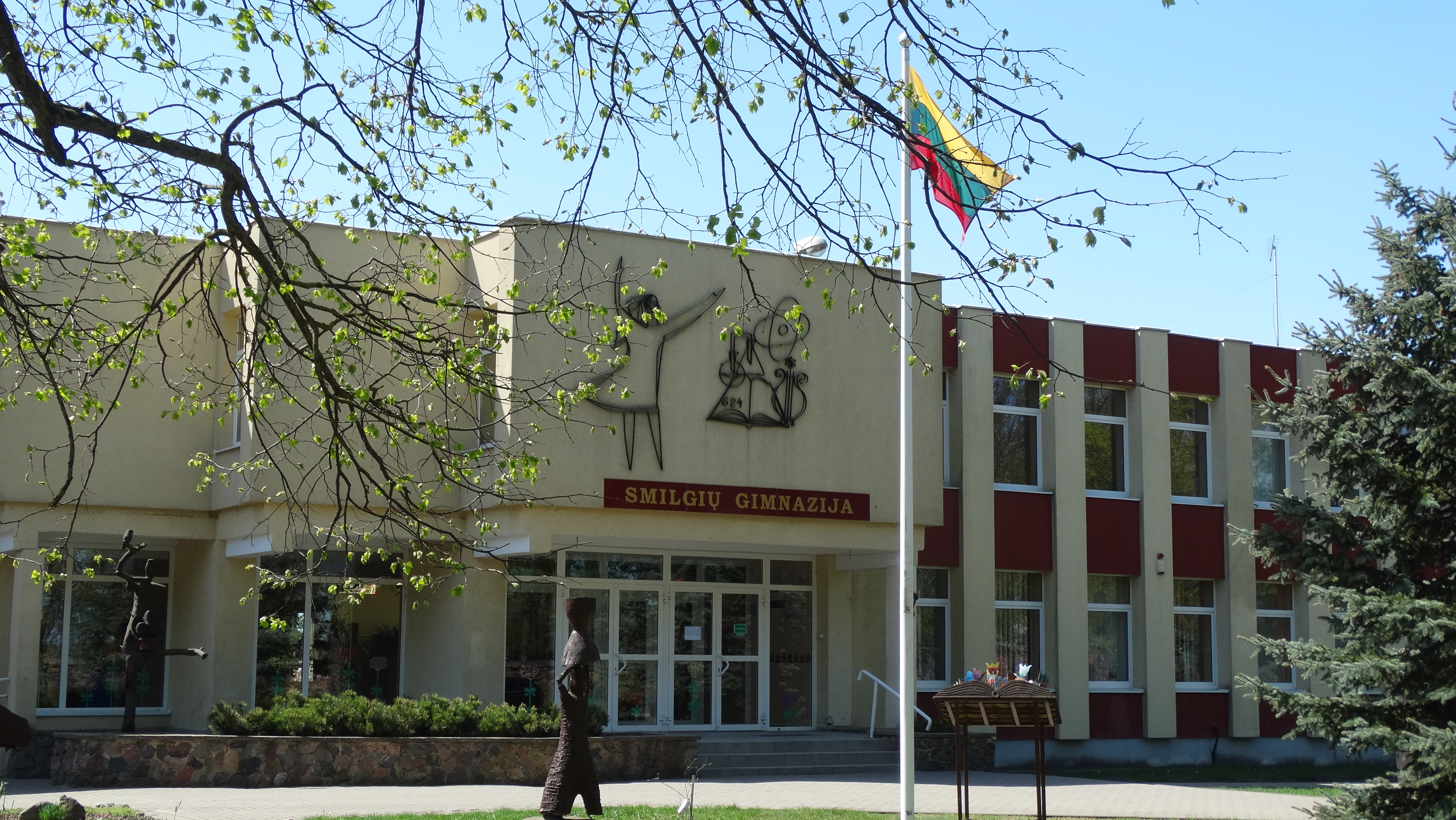 Smilgiai, gymnasium, Panevėžys district, Lithuania